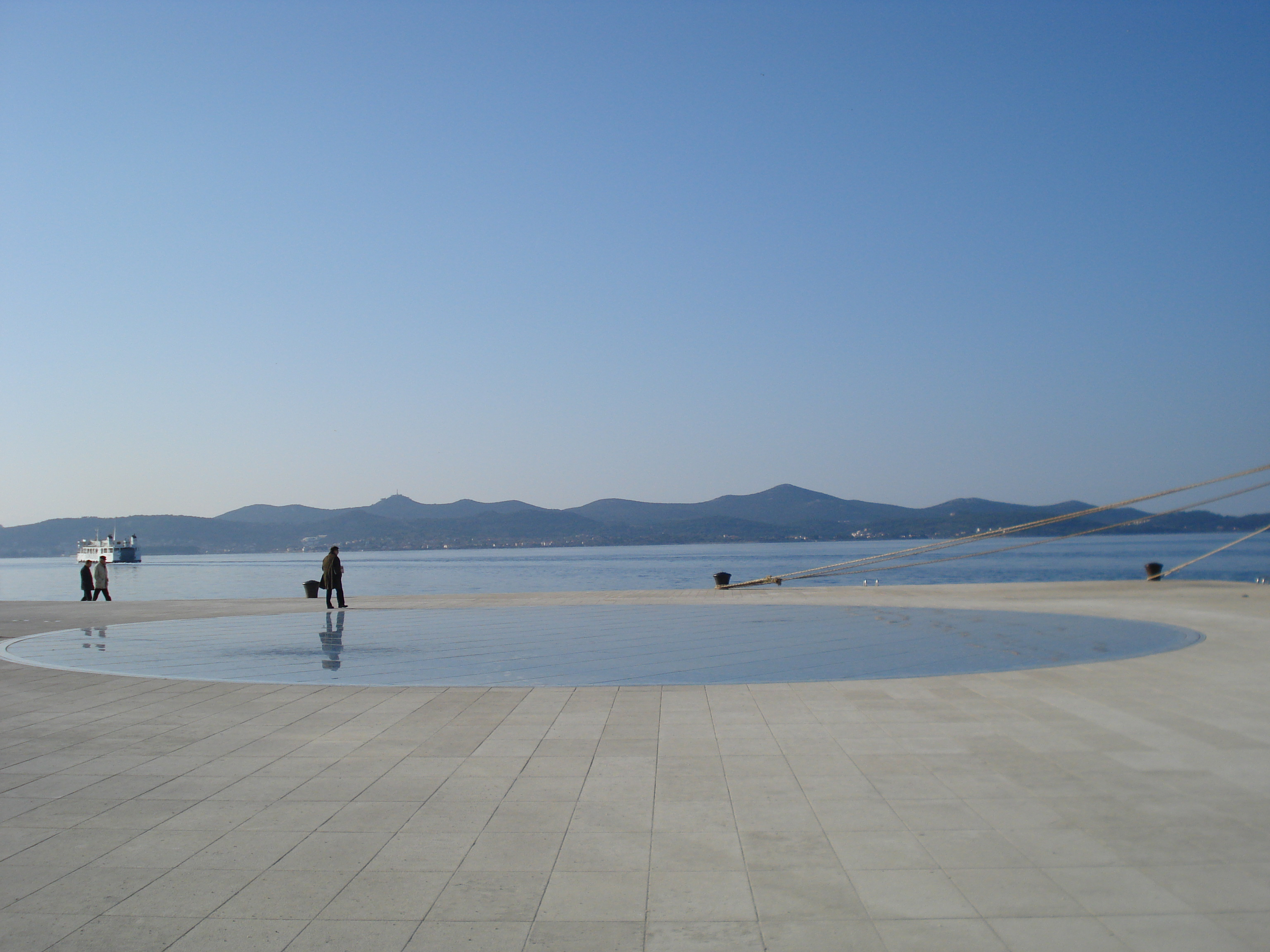 Monument to the Sun in Zadar, Croatia